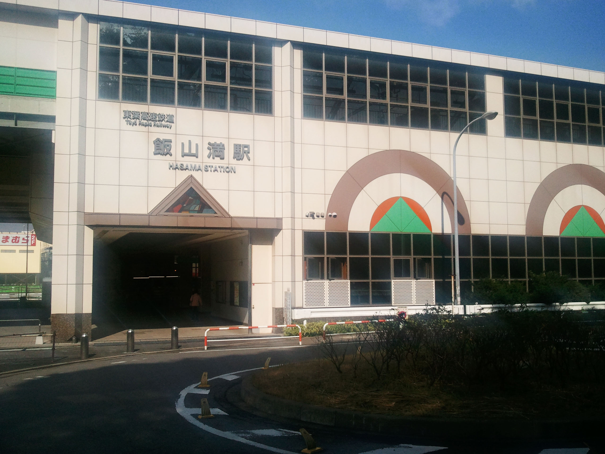 South side of Hasama Station on the Tōyō Rapid Railway Line